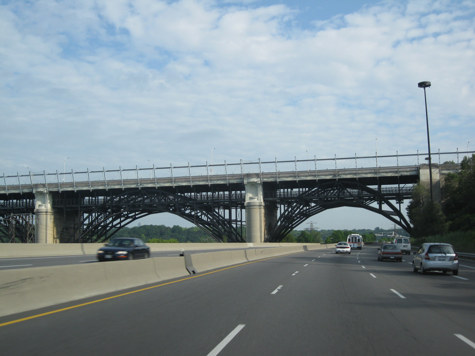 View of the Prince Edward Viaduct from the Don Valley Parkway - Toronto, Ontario